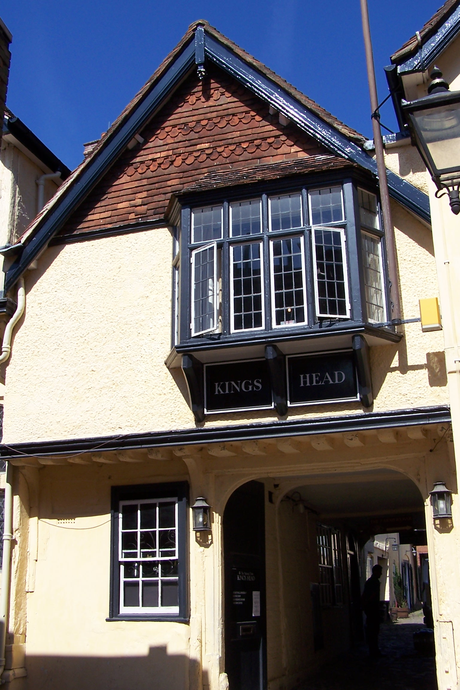 Facade of King's Head Inn in Aylesbury, originally built in the 15th century and now operated by the National Trust